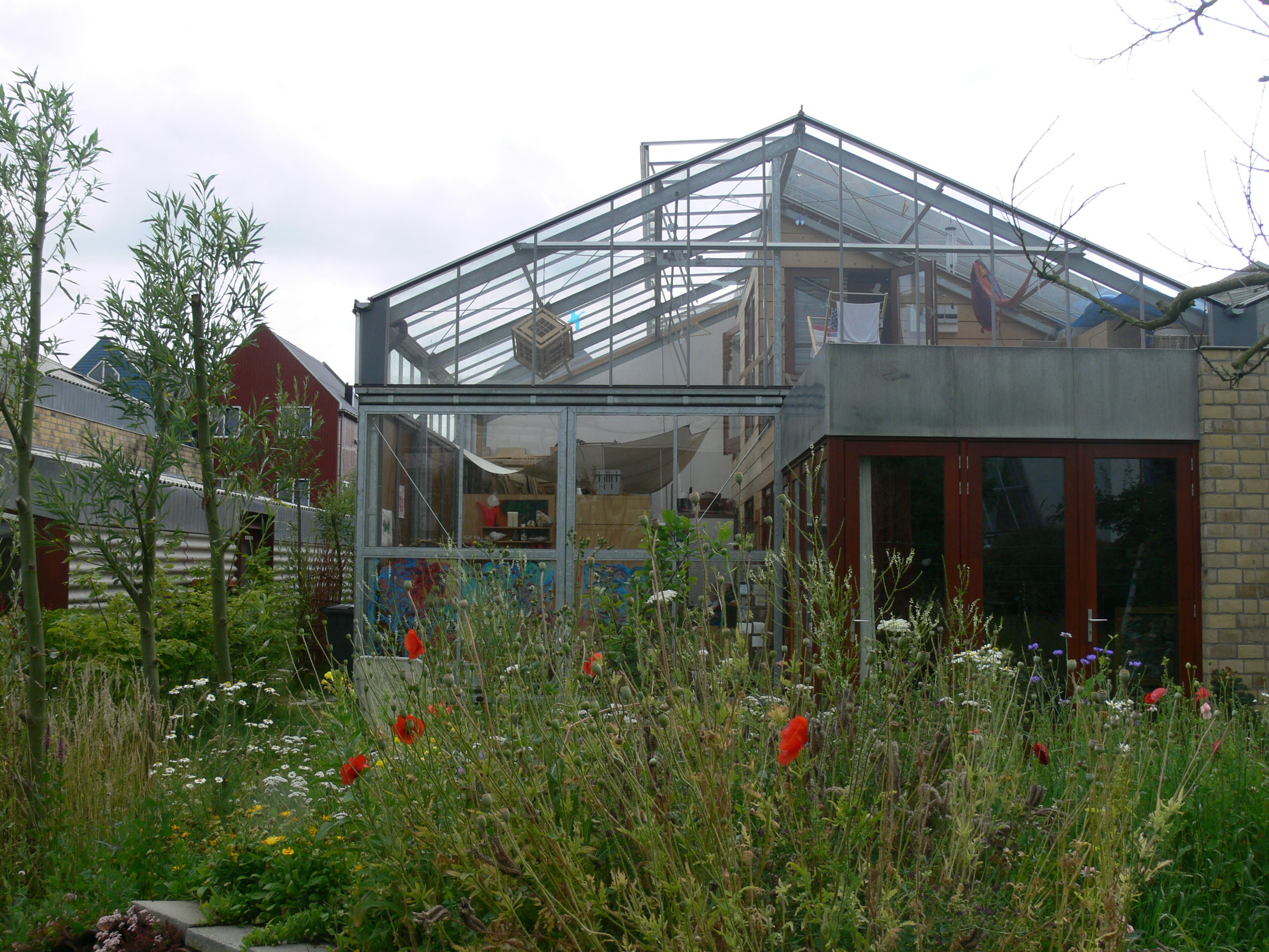 Greenhouse as house in E.V.A. Lanxmeer district (a "green distric" named Lanxmeer, built at Culemborg, The Netherlands), wich is a recent (1994-2009) district (semi-public eco-building) of approximately 250 ecological houses, several offices and a urban farm. The project is based on "Sustainable Implant" with a spatial combinaison of natural systems, technical approach of integrated waste (wastewater) / energy system and écological and social purposes, for an urban neighborhood. The district is in an ecologically sensitive area (former drinking waterextraction and retention area). The conception of this district is based on permaculture, and organic design, a small biogas installation (able to treate black water and organic waste and garden & park waste), a combined Heat Power. Some houses are in closed greenhouse. A semi-public building (the ‘EVA Centre) should yet be made, based on the Living Machine concept.